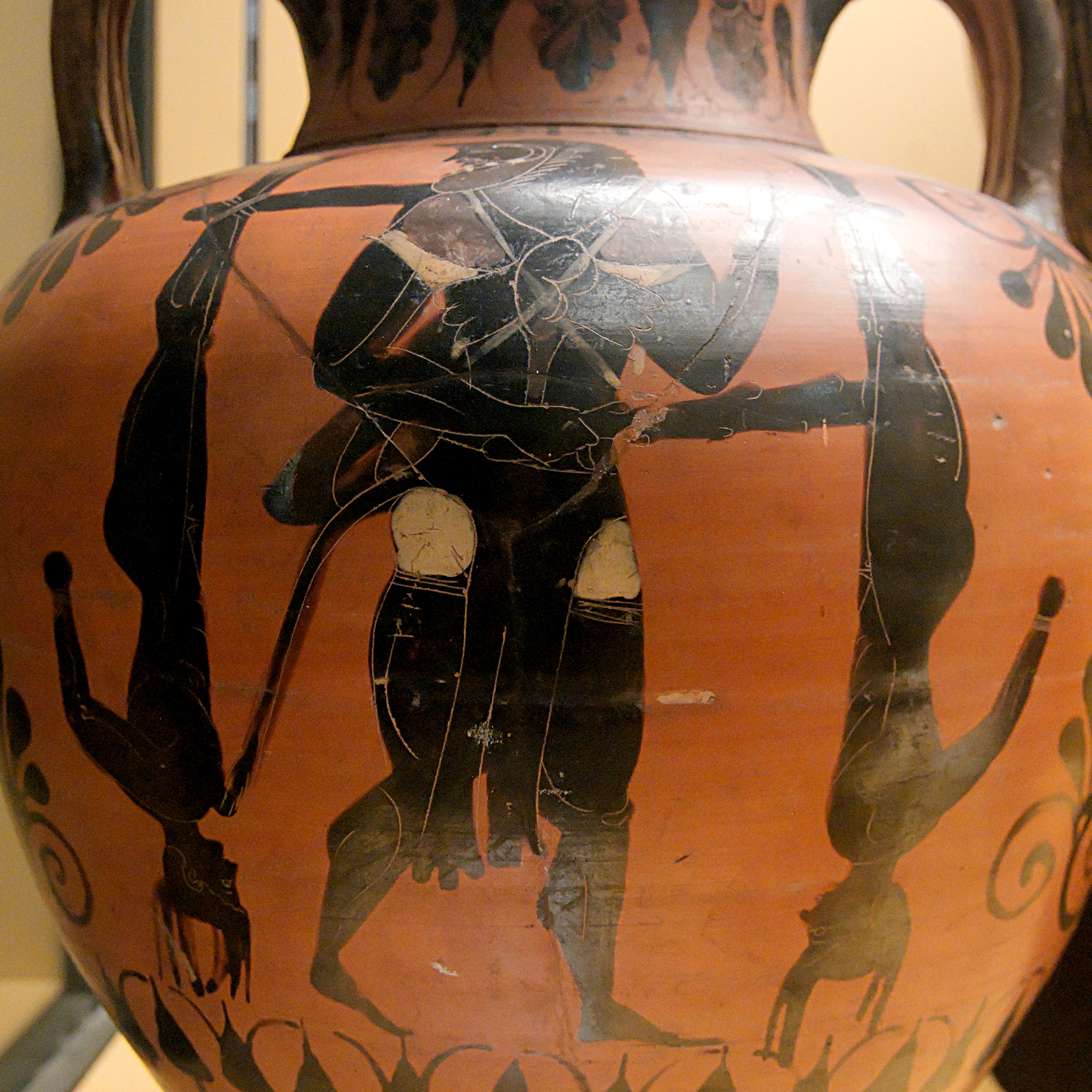 Herakles wearing the lion-skin and a white chiton, carries on his shoulder a stick to which the Kerkopes are bound. Side A of an Attic black-figure amphora, 530–500 BC.